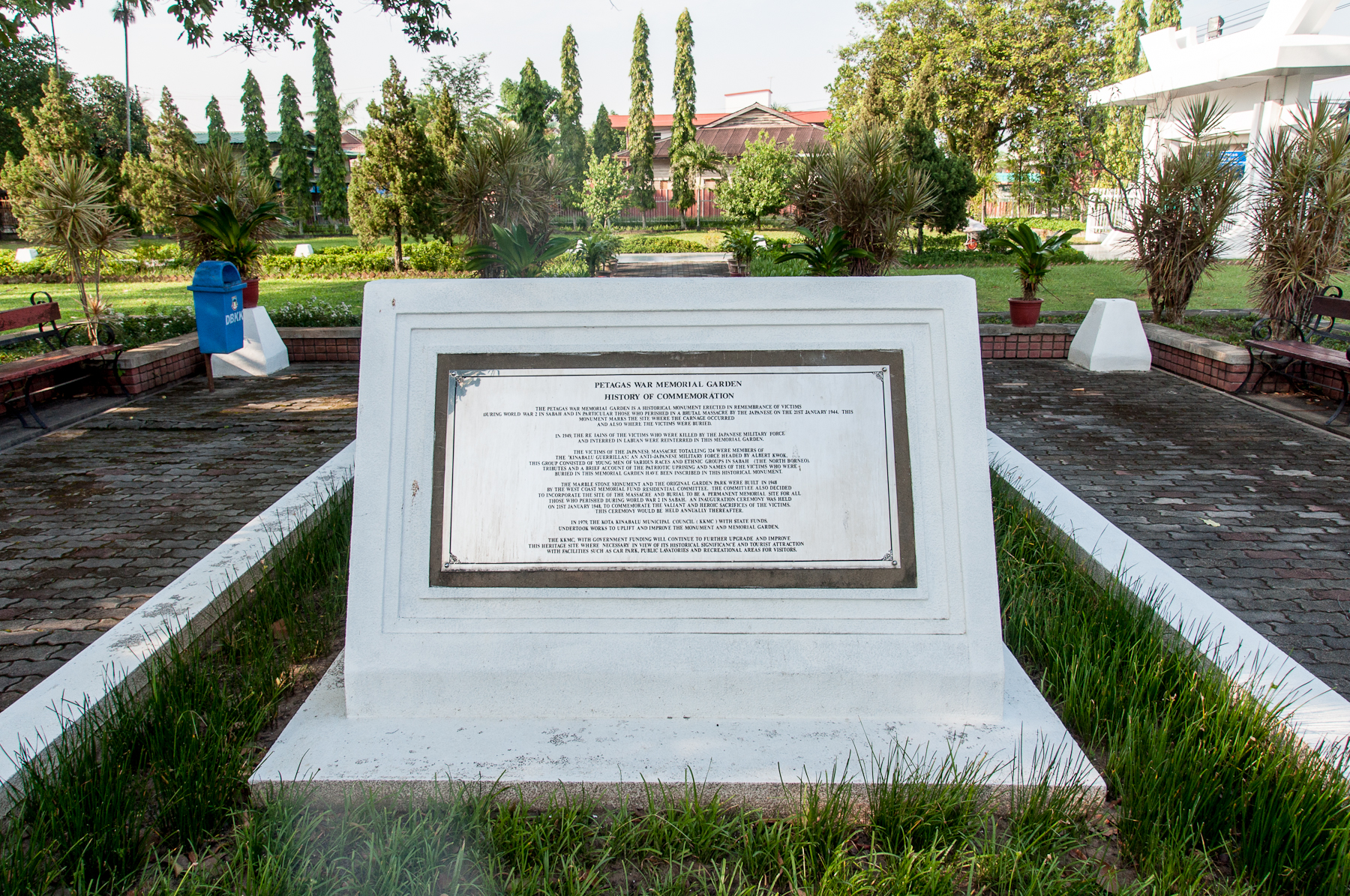 Kg. Petagas, District Putatan: History of Commemoration